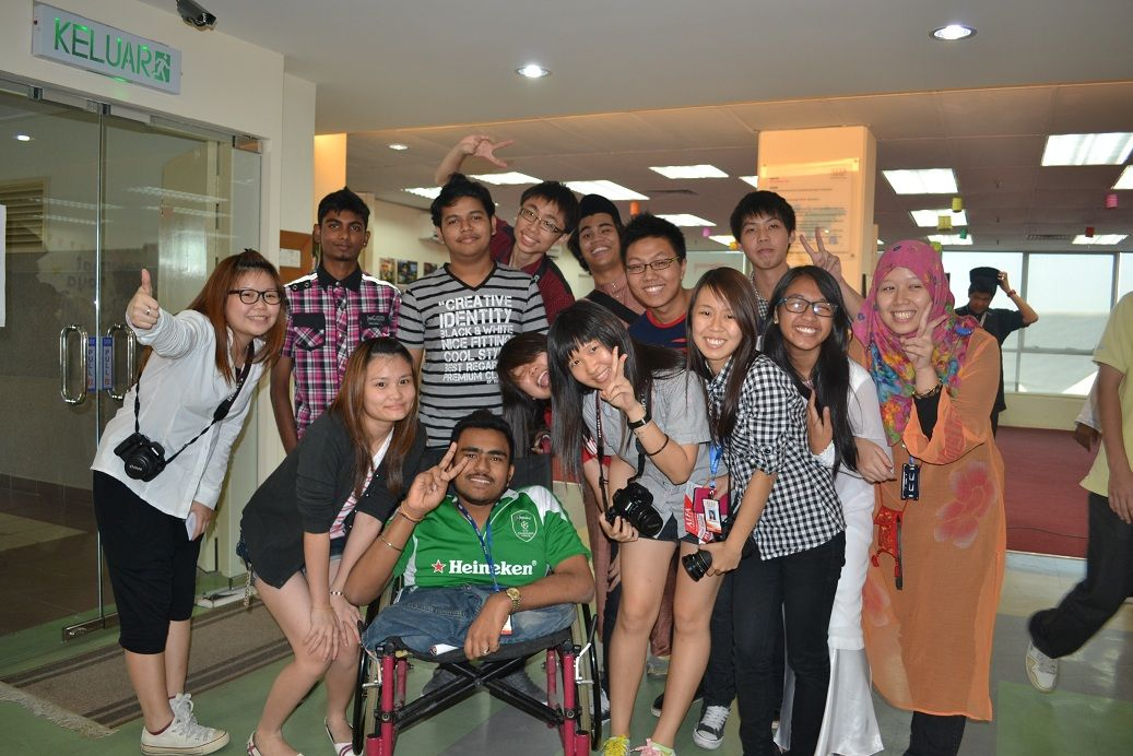 Students at ALFA College in Subang Jaya, Selangor, Malaysia.